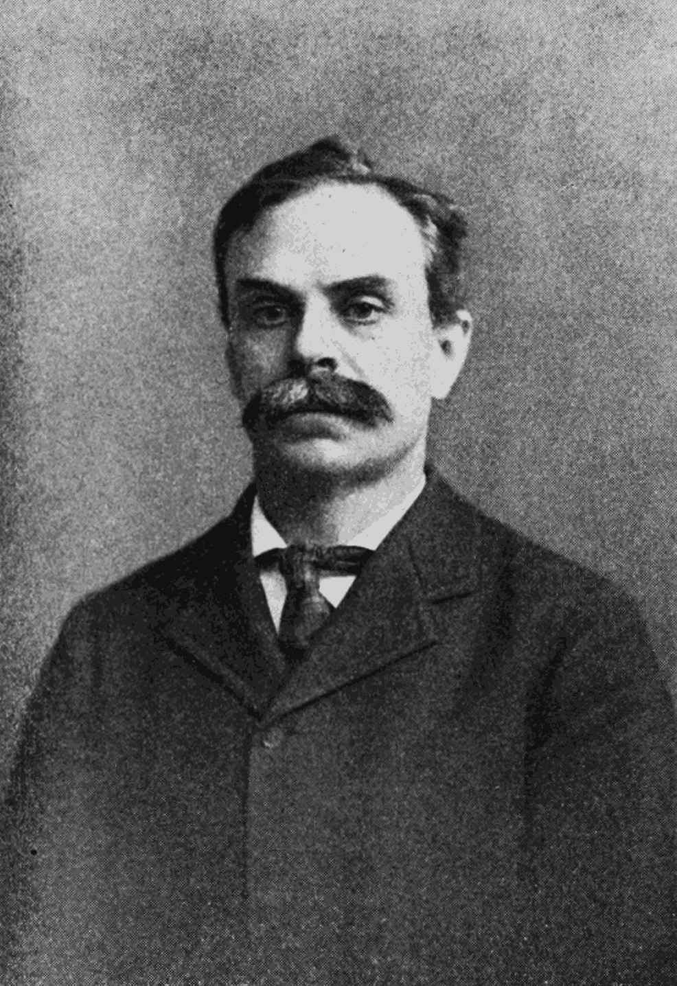 Edwin H Hall